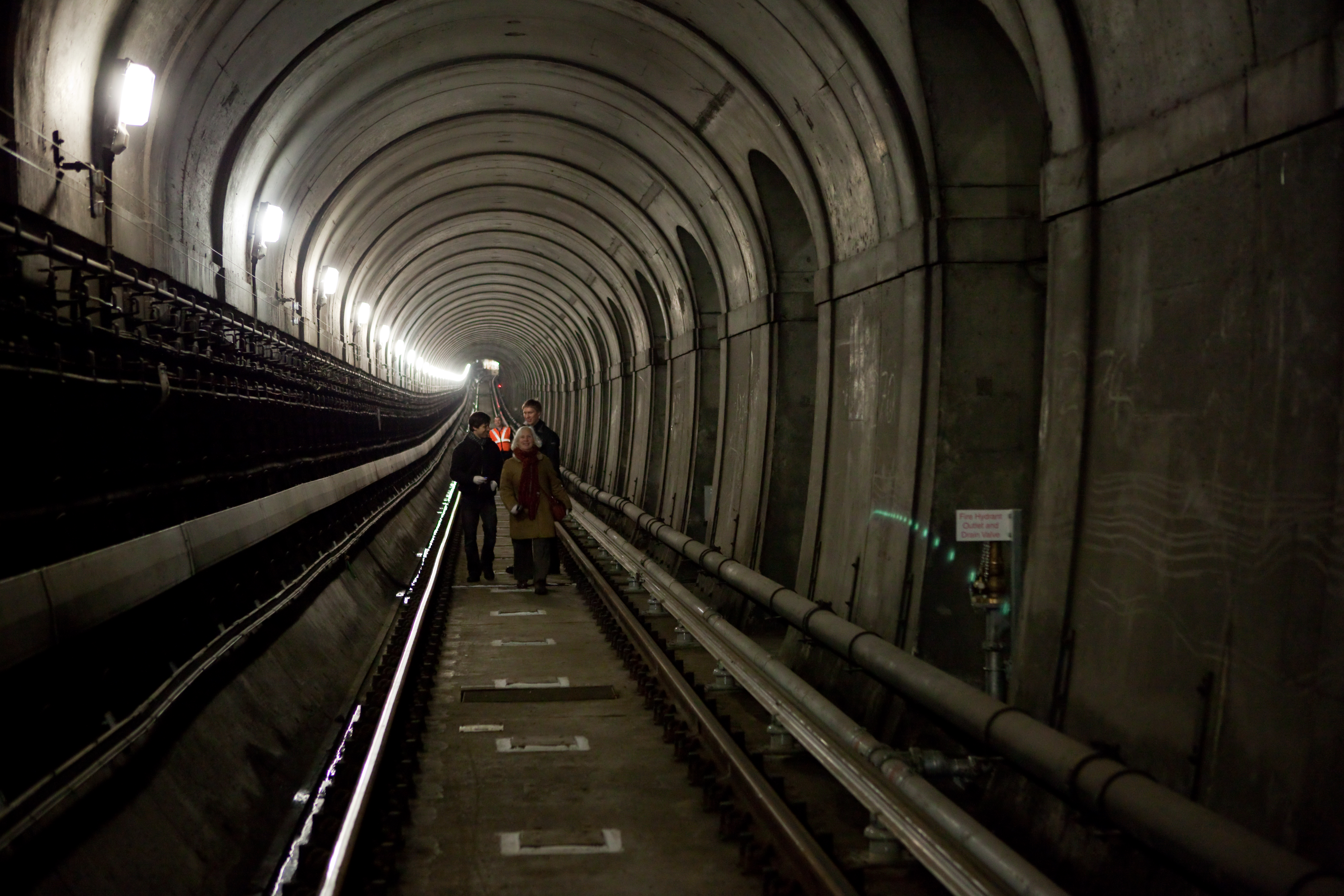 Thames Tunnel walk open day, March 2010